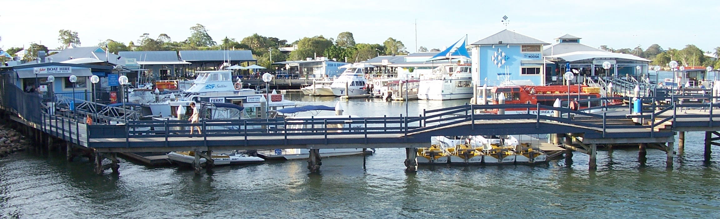 Taken and cropped by Zephyr103 08:52, 23 December 2006 (UTC)